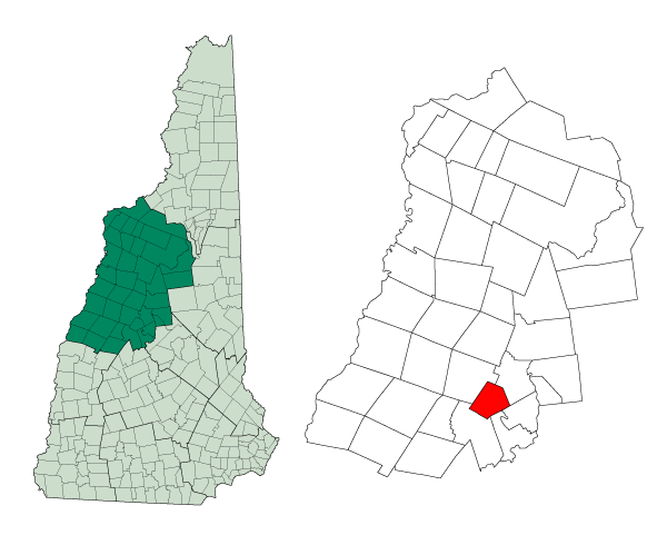 Map of a municipality in Belknap County, New Hampshire